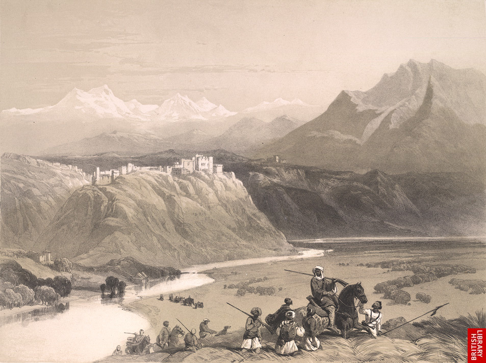 The palace of Maharaja Gulab Singh of Jammu and Kashmir, (r.1846-1855), on the banks of Tawi River, Jammu, mid 19th century.